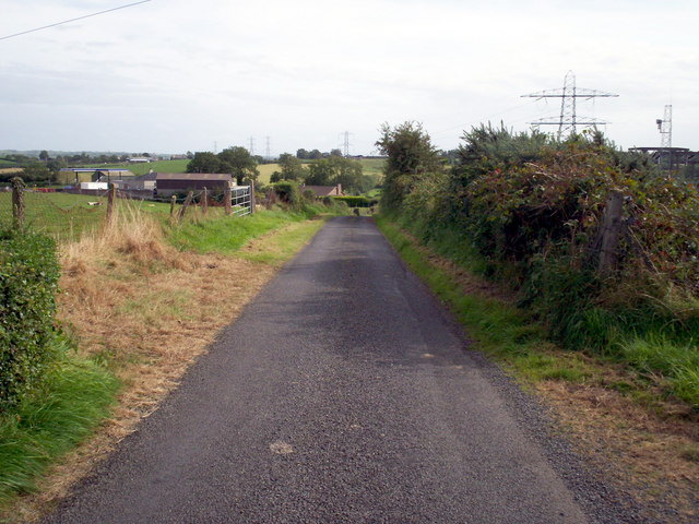 Ballylisk Lane, Tandragee.